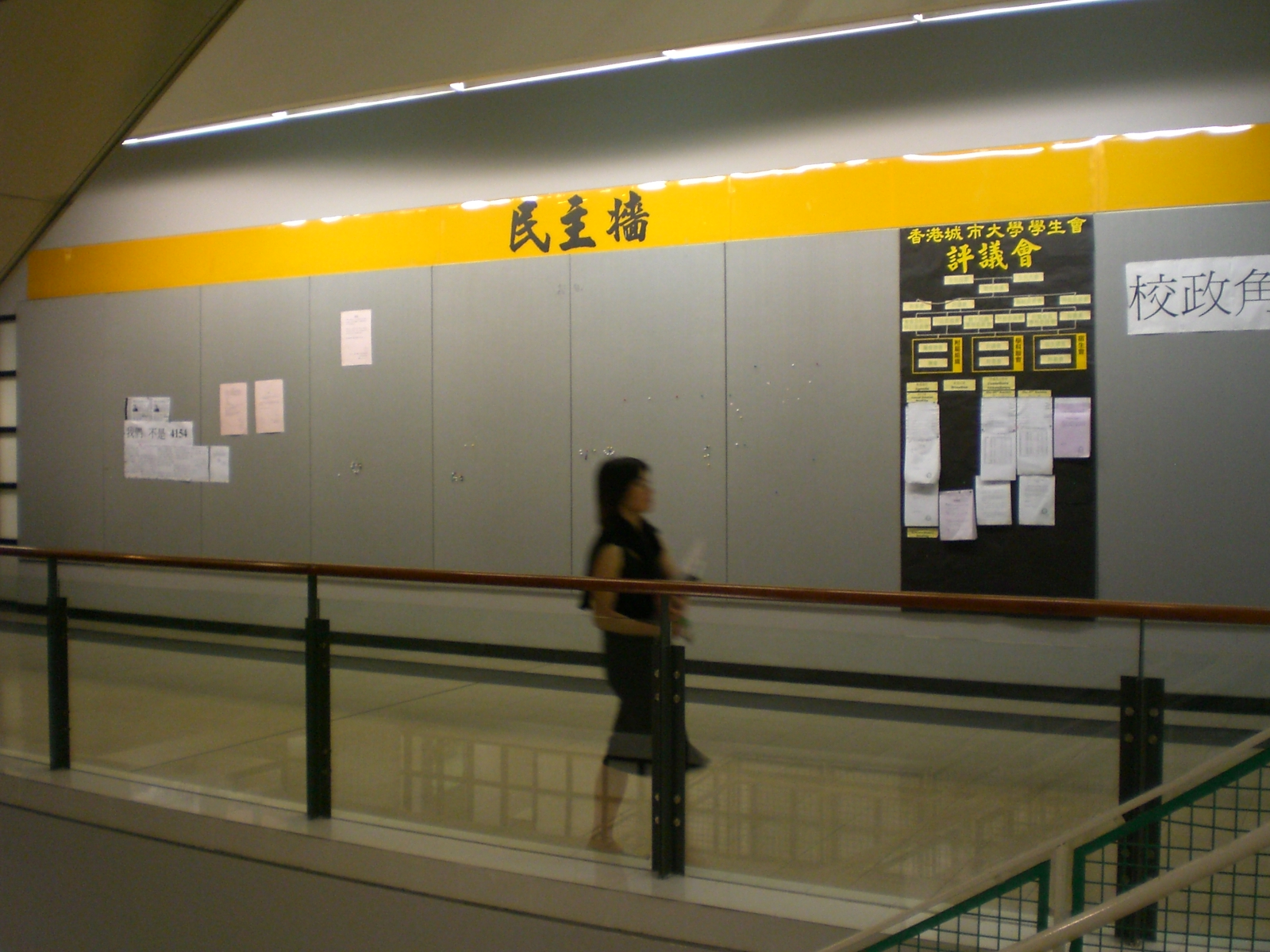 香港城市大學, City University of Hong Kong, zh-yue:香港城市大學